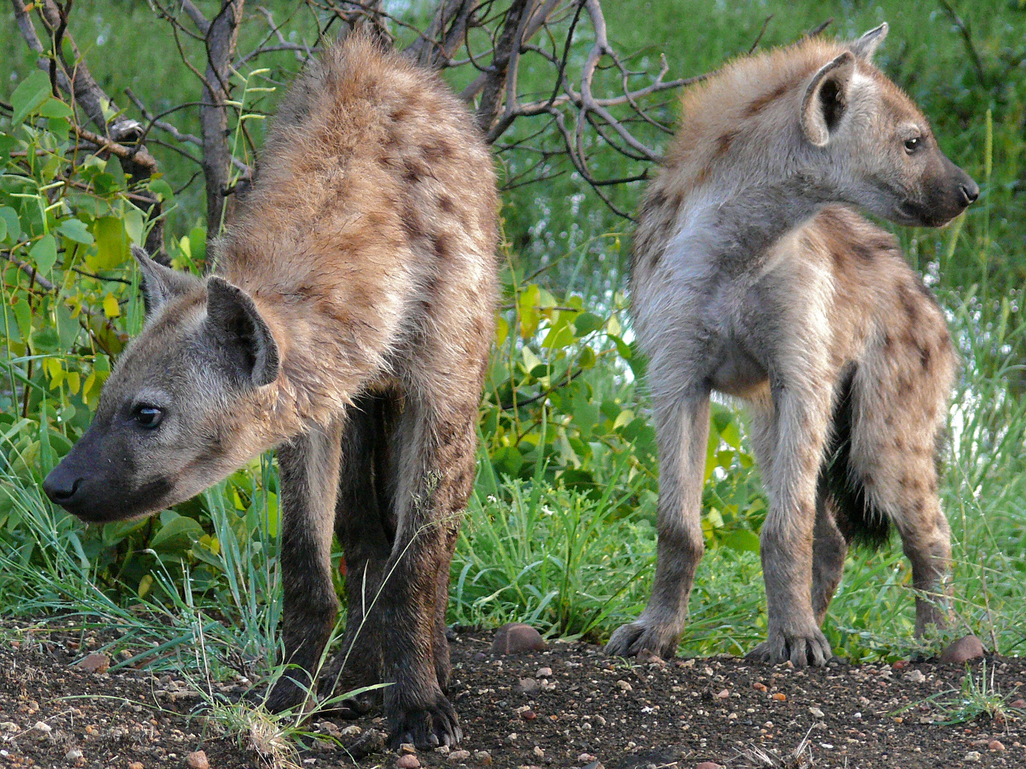 H1-7 North of Shingwedzi, Kruger NP, SOUTH AFRICA